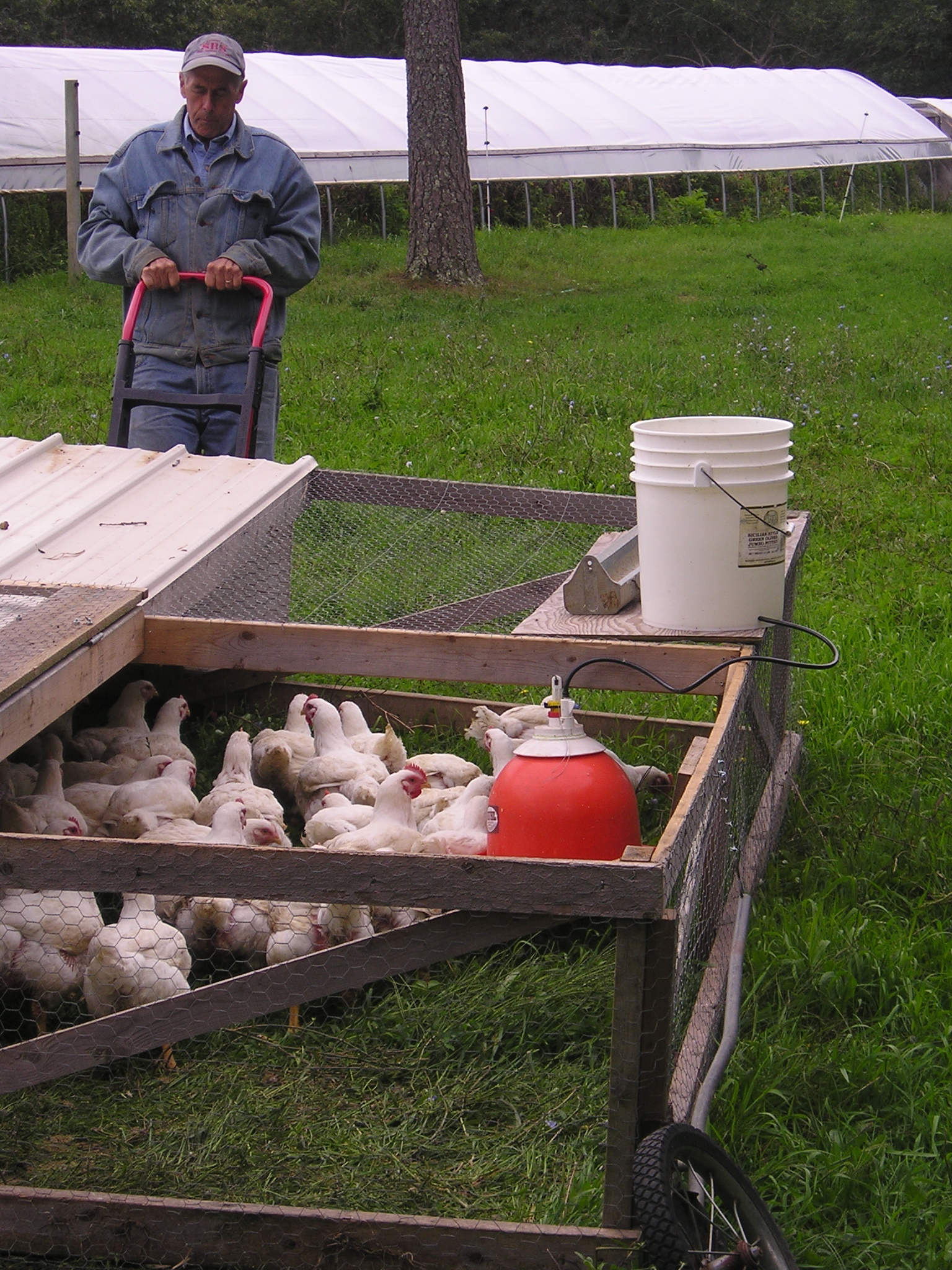 A farmer on Martha's Vineyard moves a mobile poultry coop of a type called a "chicken tractor."